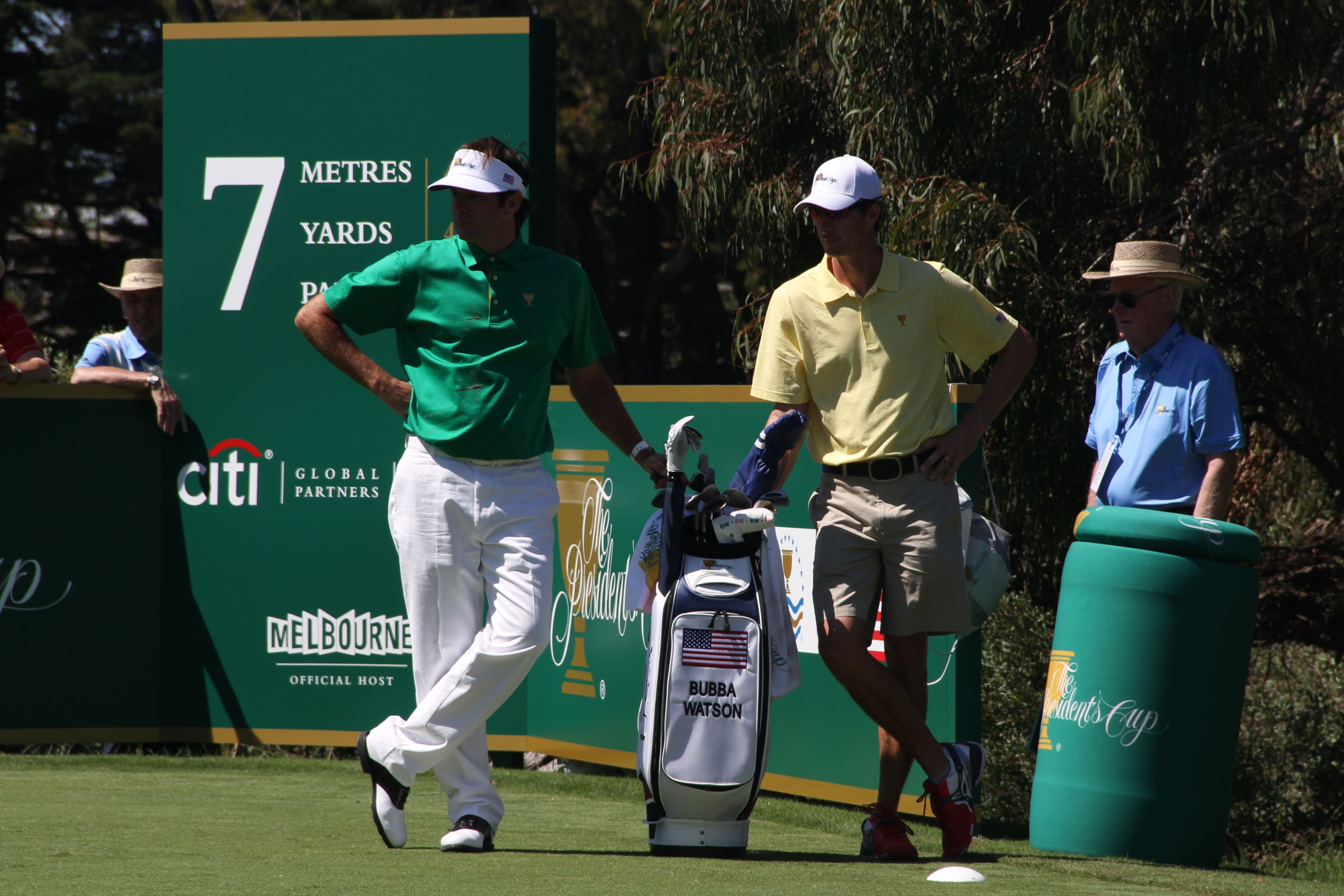 Bubba Watson at the 2011 Presidents Cup during a practice round on 15 November.